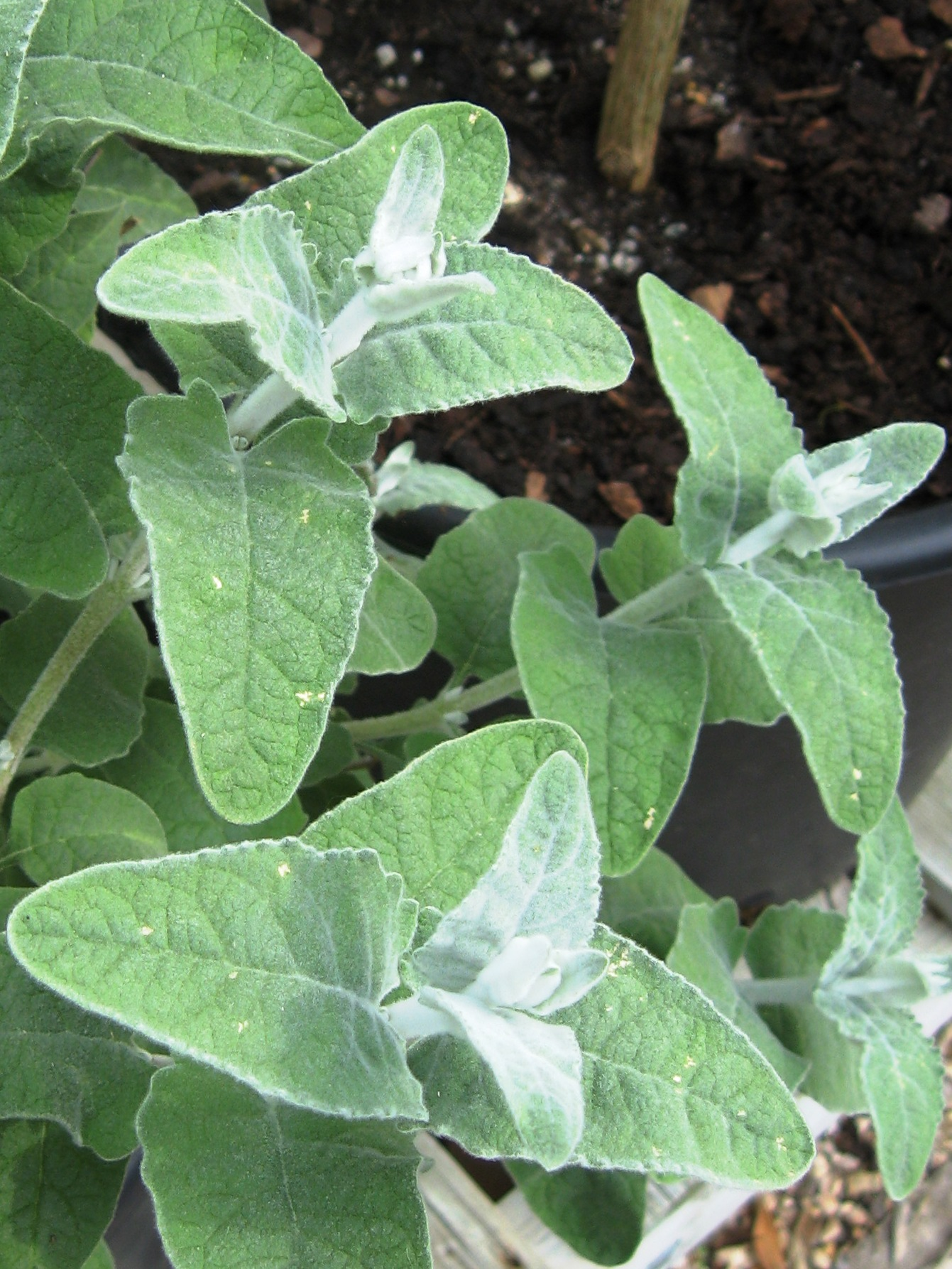 Photo of foliage of Buddleja crispa.